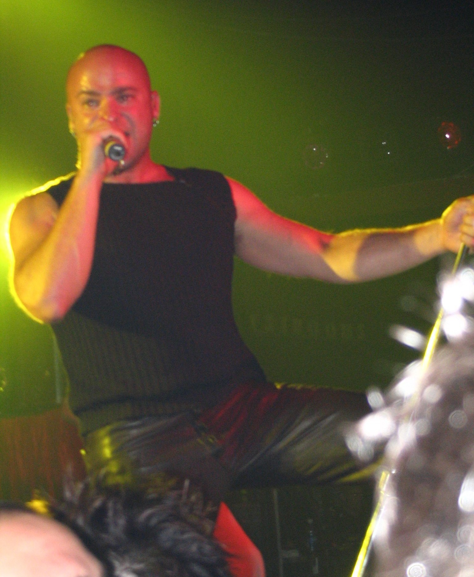 Picture I took of the lead singer of Disturbed, David Draiman, at their performance in Starland Ballroom on July 30, 2004.